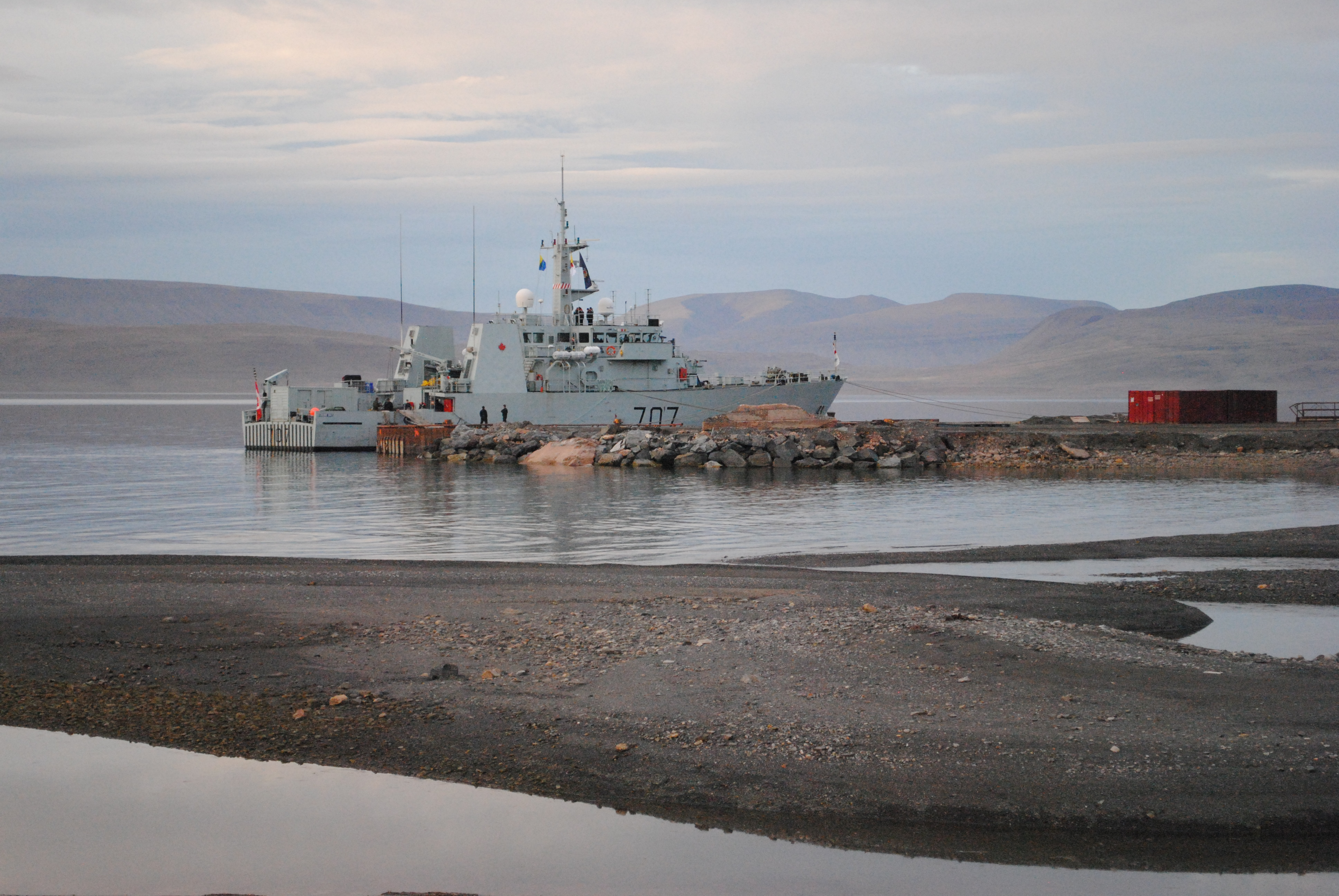 HMCS GOOSE BAY at Nanisivik, NU, 20 August 2010